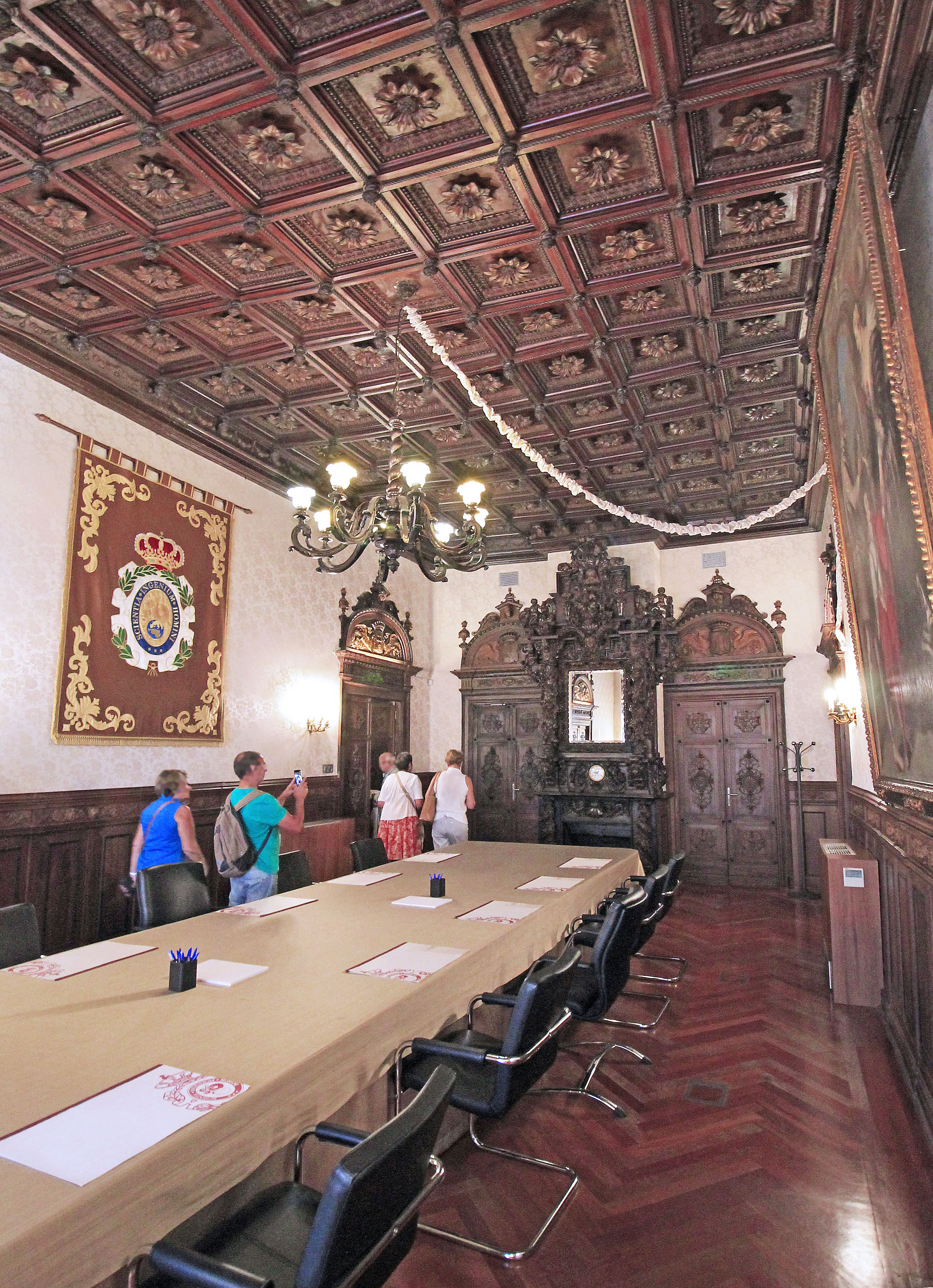 The boardroom of the Royal Academy of Engineering of Spain. Interior designed by Arturo Mélida in the 1870's for the former mansion of the marquis of Villafranca in Madrid.